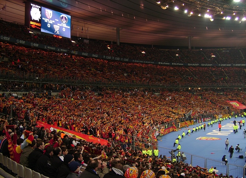 RC Lens supporters during Lens-Paris, Coupe de la Ligue 2008's final (Stade de France, 29/03/2008)